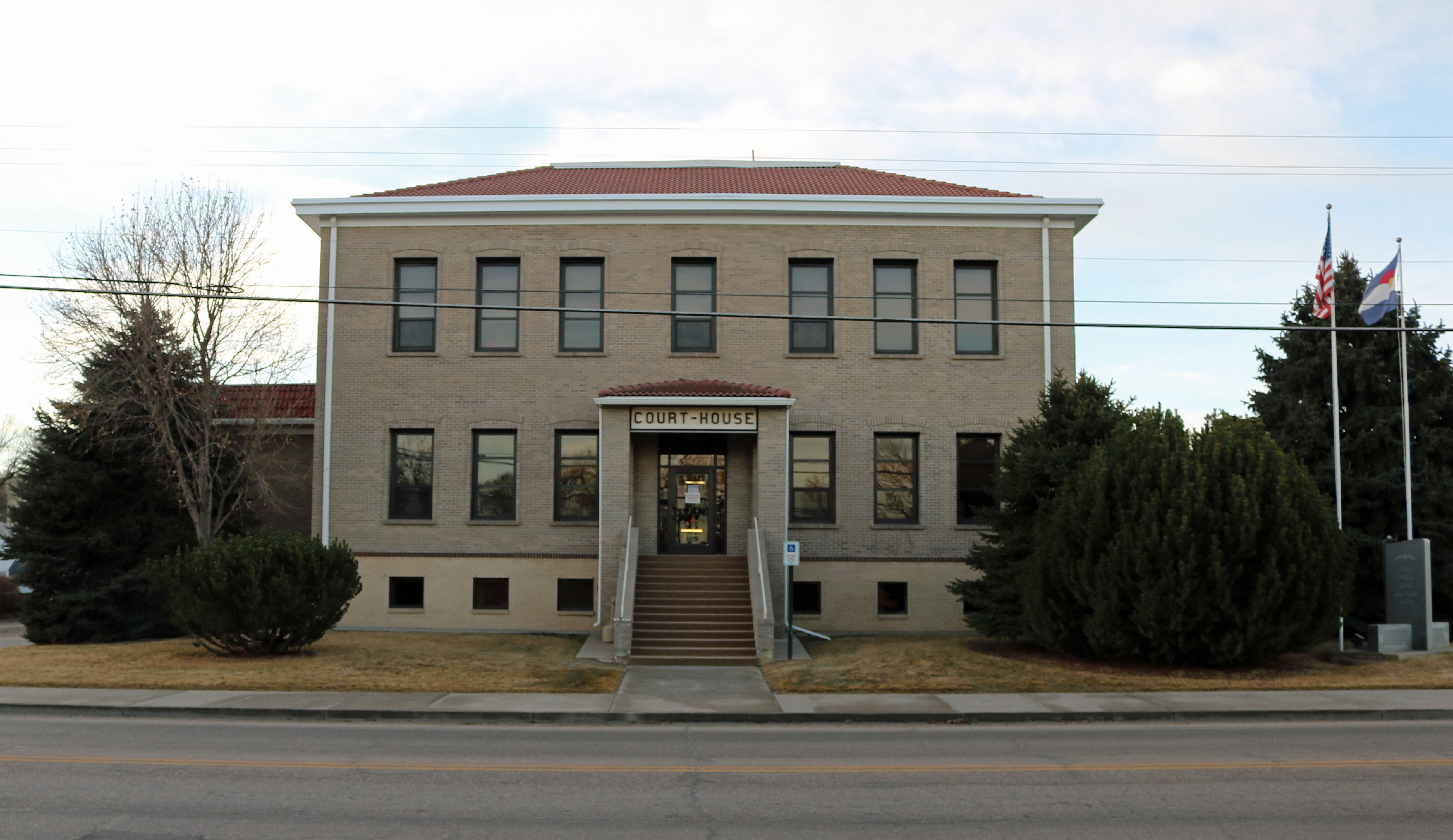 The Yuma County Court-House, located at 310 Ash Street in Wray, Colorado. This view shows the north side of the building, the side facing East 3rd Street.